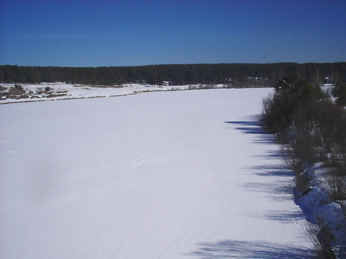 Irkut River near village Zaktuj in Tunkinsky district of Buryatia, Russian Federation.